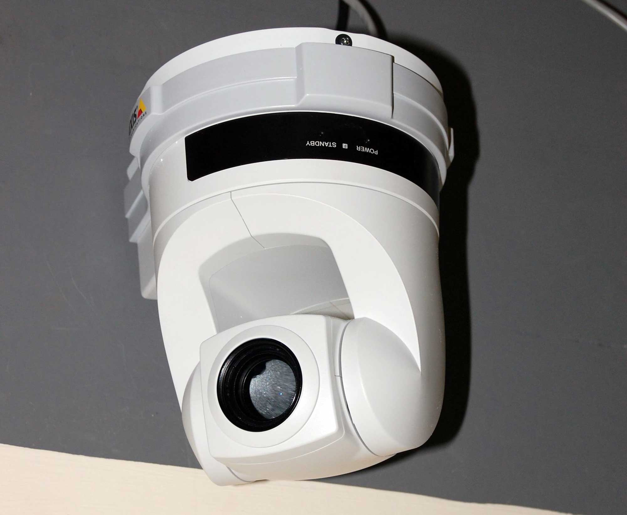 Axis model 214 pan-tilt-zoom IP camera.